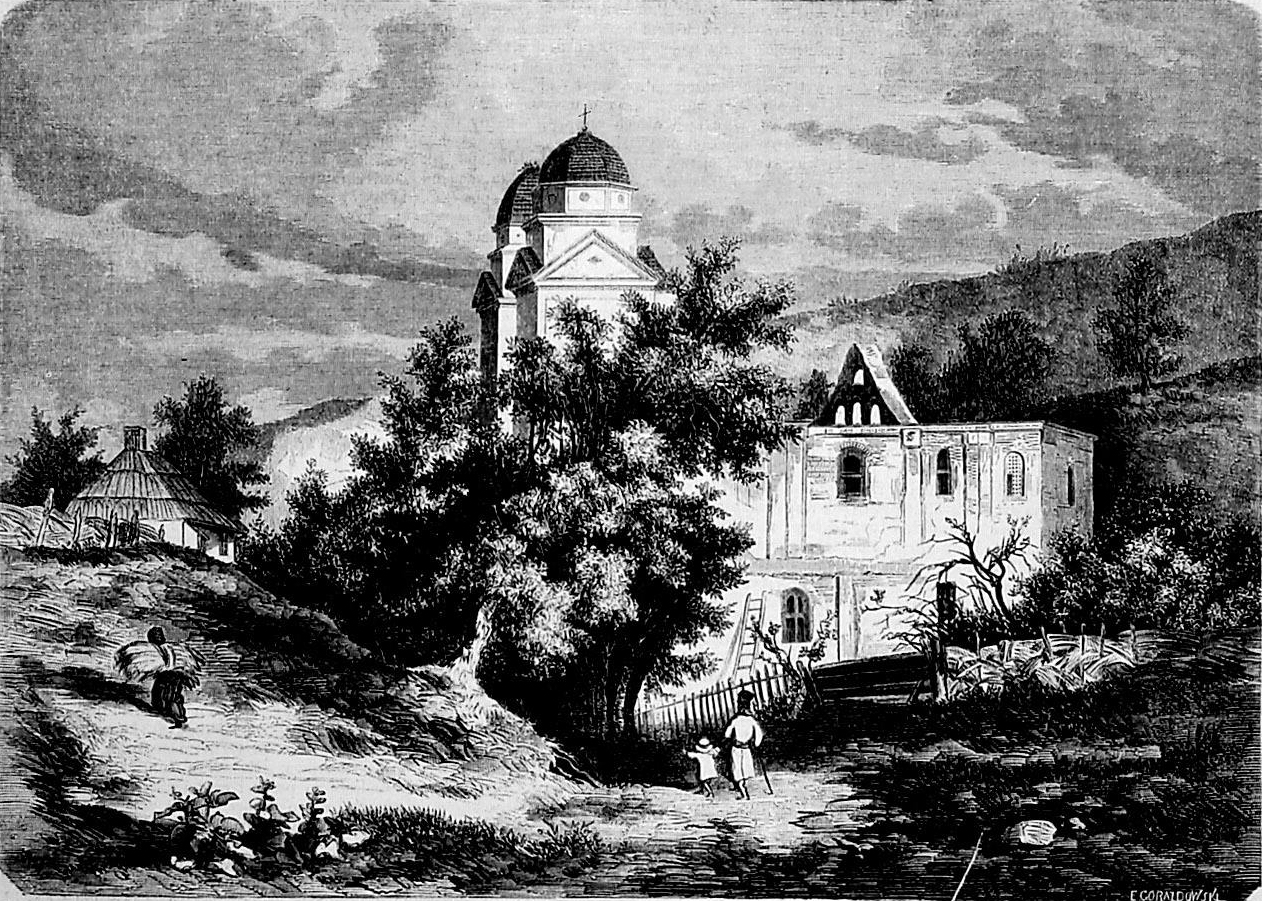 Mazyr, XIX century